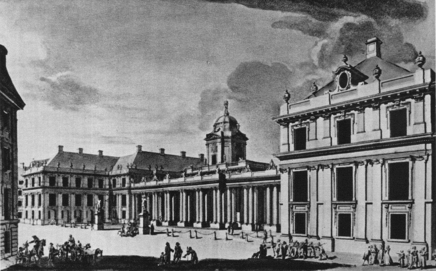 Reconstruction design of the Royal Castle in Warsaw by J. Fontana, copperplate XVIII c.